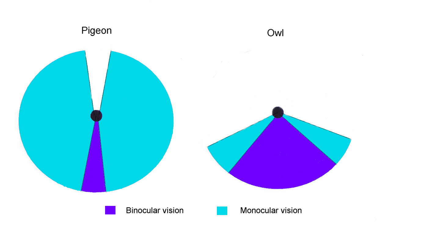 Fields of view of an owl and a pigeon, drawn by jimfbleak